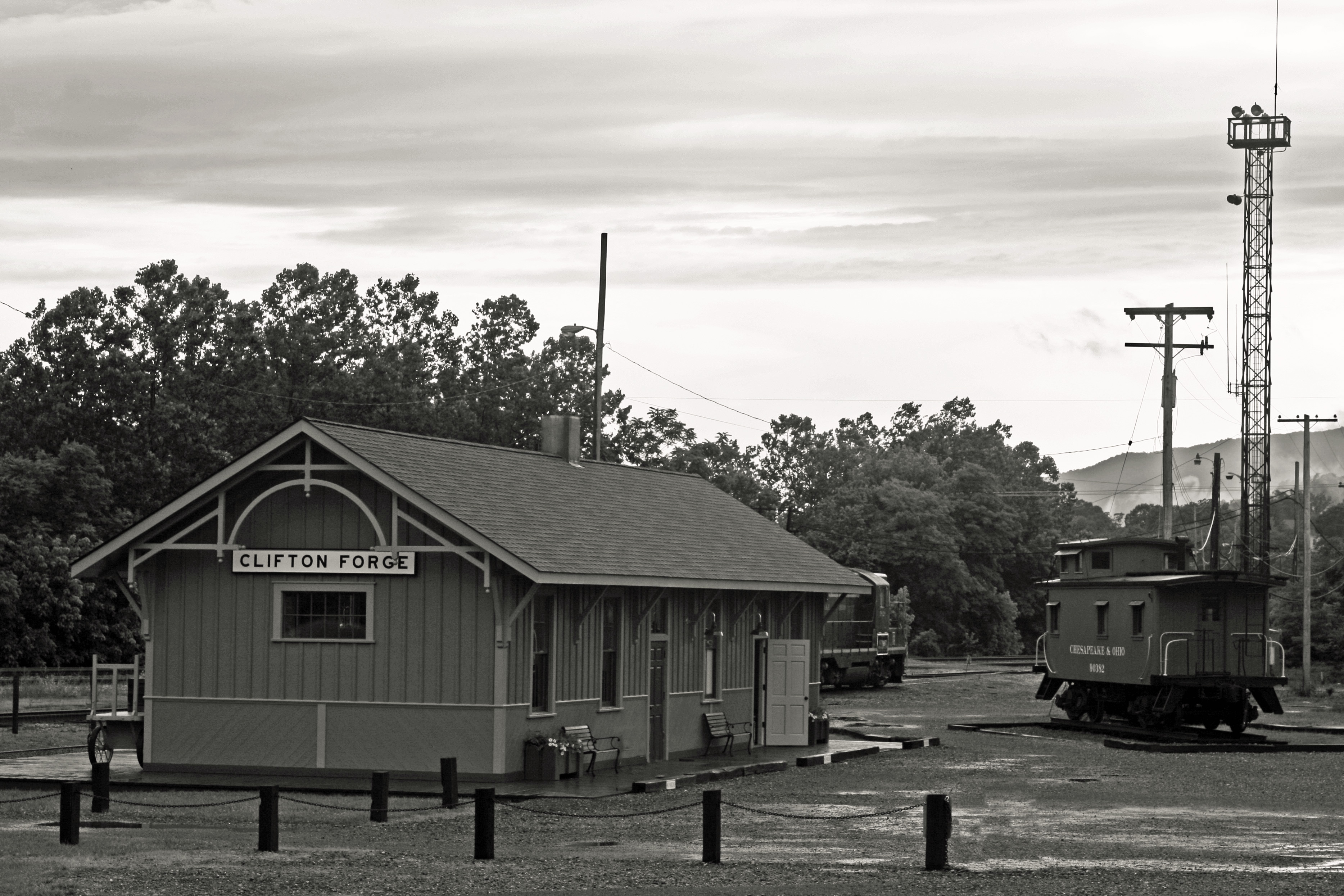 This station is located in Clifton Forge, Virginia at the C&O Railway Heritage Center. It is a reproduction of a C&O Standard Station.